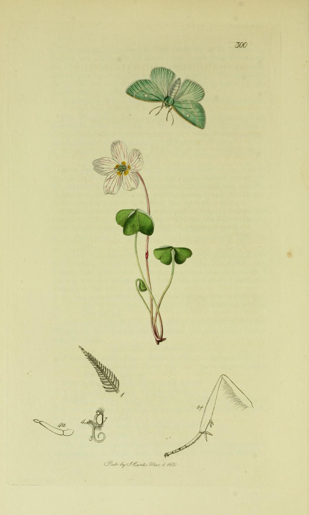 An illustration from British Entomology by John Curtis. Lepidoptera: Hipparchus smaragdarius or Thetidia smaragdaria (Essex Emerald Moth).